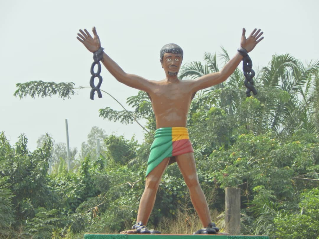 Status at the major crossroads of Comè of the inter-state road (Benin-Togo). In the local language, it is called Dadje Soka, which means freedom of the human being.